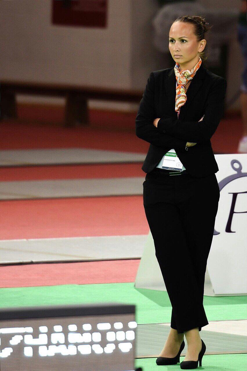 Aida Khasanova - FIE referee